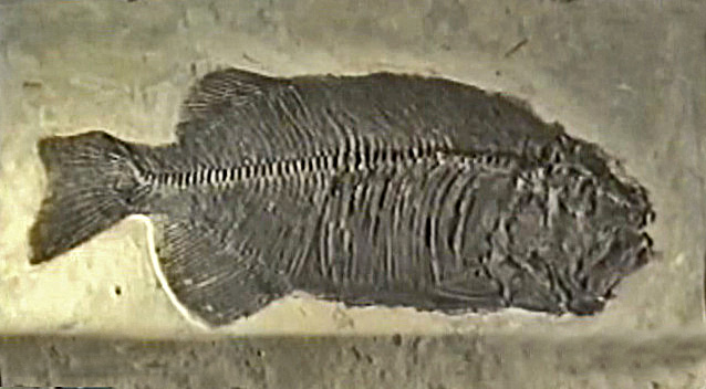 Phareodus encaustus, from Green River Formation, at the Fossil Butte National Monument